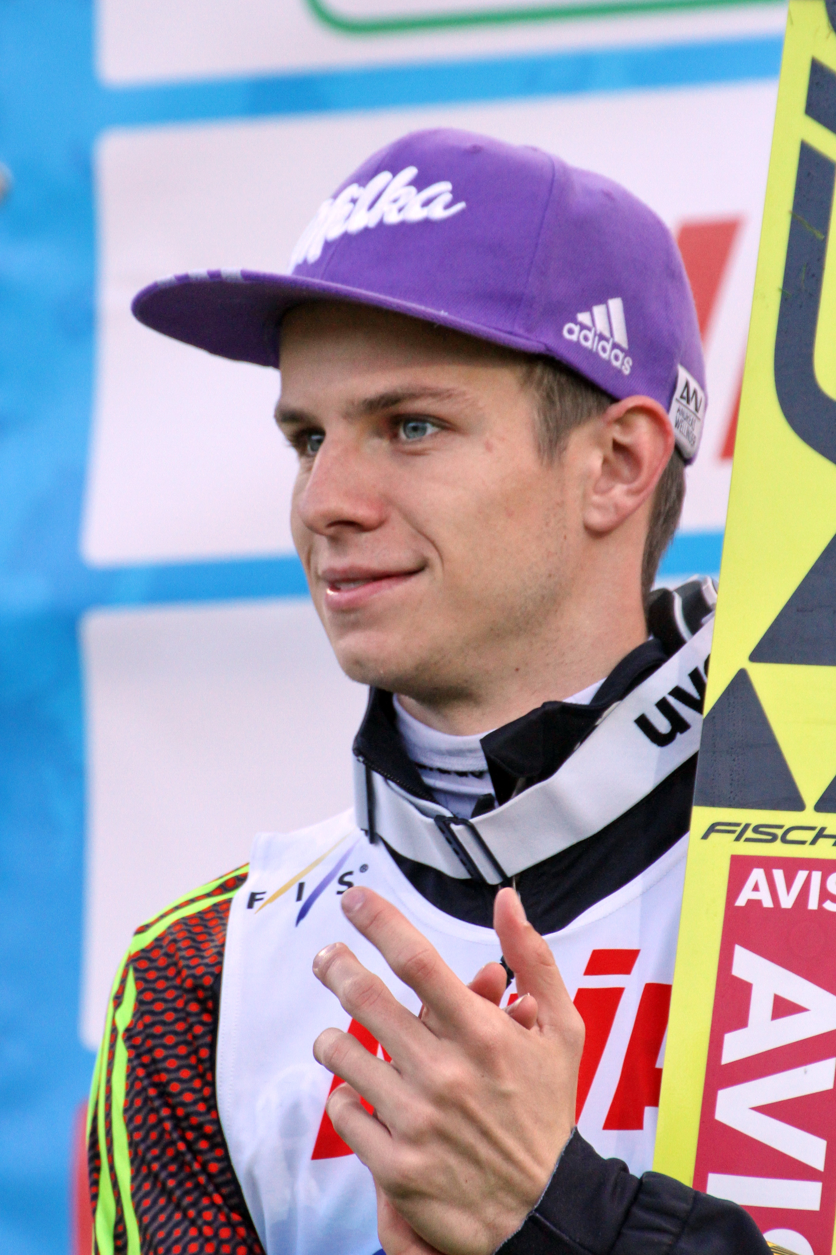 FIS Ski Jumping Summer Grand Prix Klingenthal 2017 on 2017-10-03 Andreas Wellinger